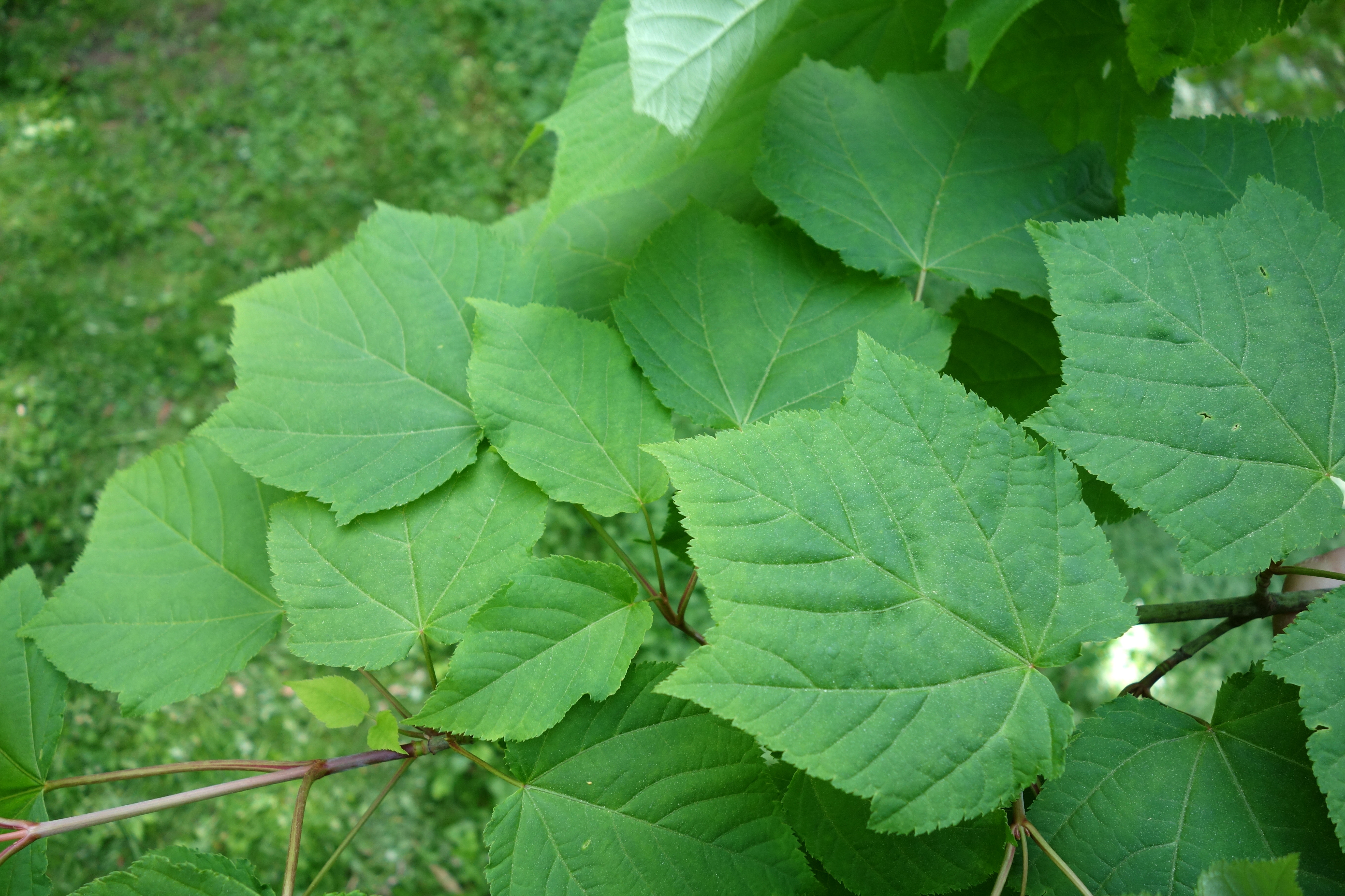 Botanical specimen in the Morris Arboretum, 100 East Northwestern Avenue, Chestnut Hill, Philadelphia, Pennsylvania, USA.